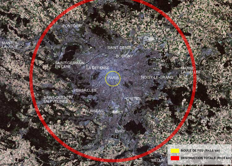 Zone of total destruction of the Tsar Bomba on a map of Paris: red circle = total destruction (radius 35 kilometers), yellow circle = fireball (radius 3.5 kilometers).